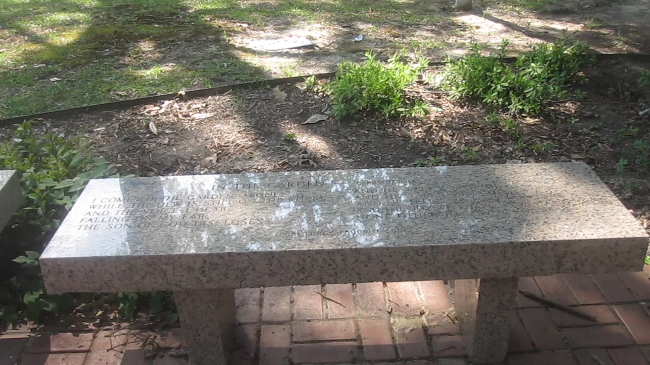 Bench inscribed with words of "In the Garden" hymn at Earl K. Long grave and statue, Winnfield, LA